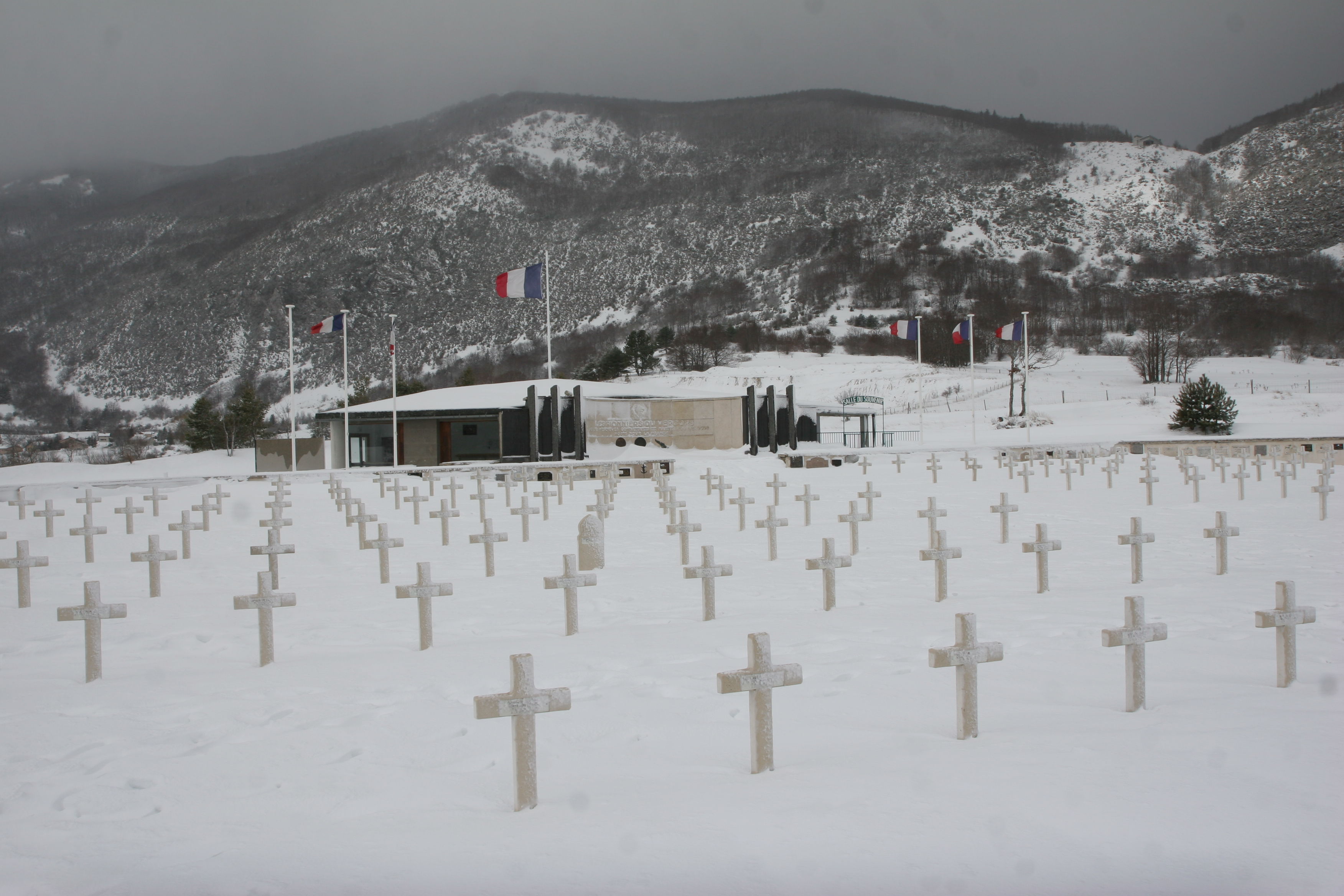 Vassieux-en-Vercors, France, in memoriam to the French Resistance